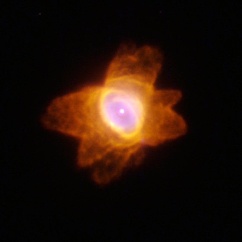 Planetary nebulae Hen 2-47